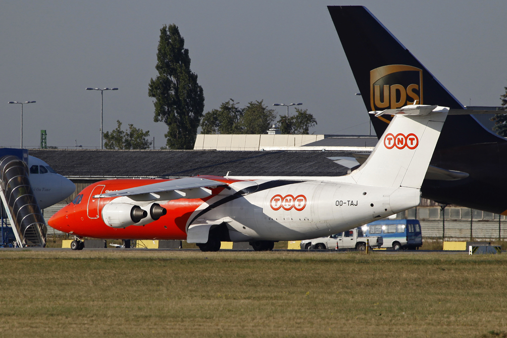 OO-TAJ Bae146F TNT